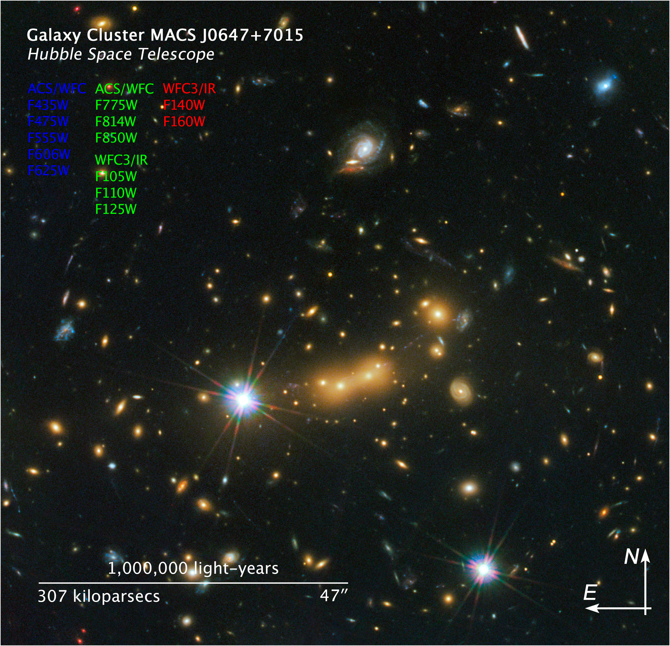 Cropped from from